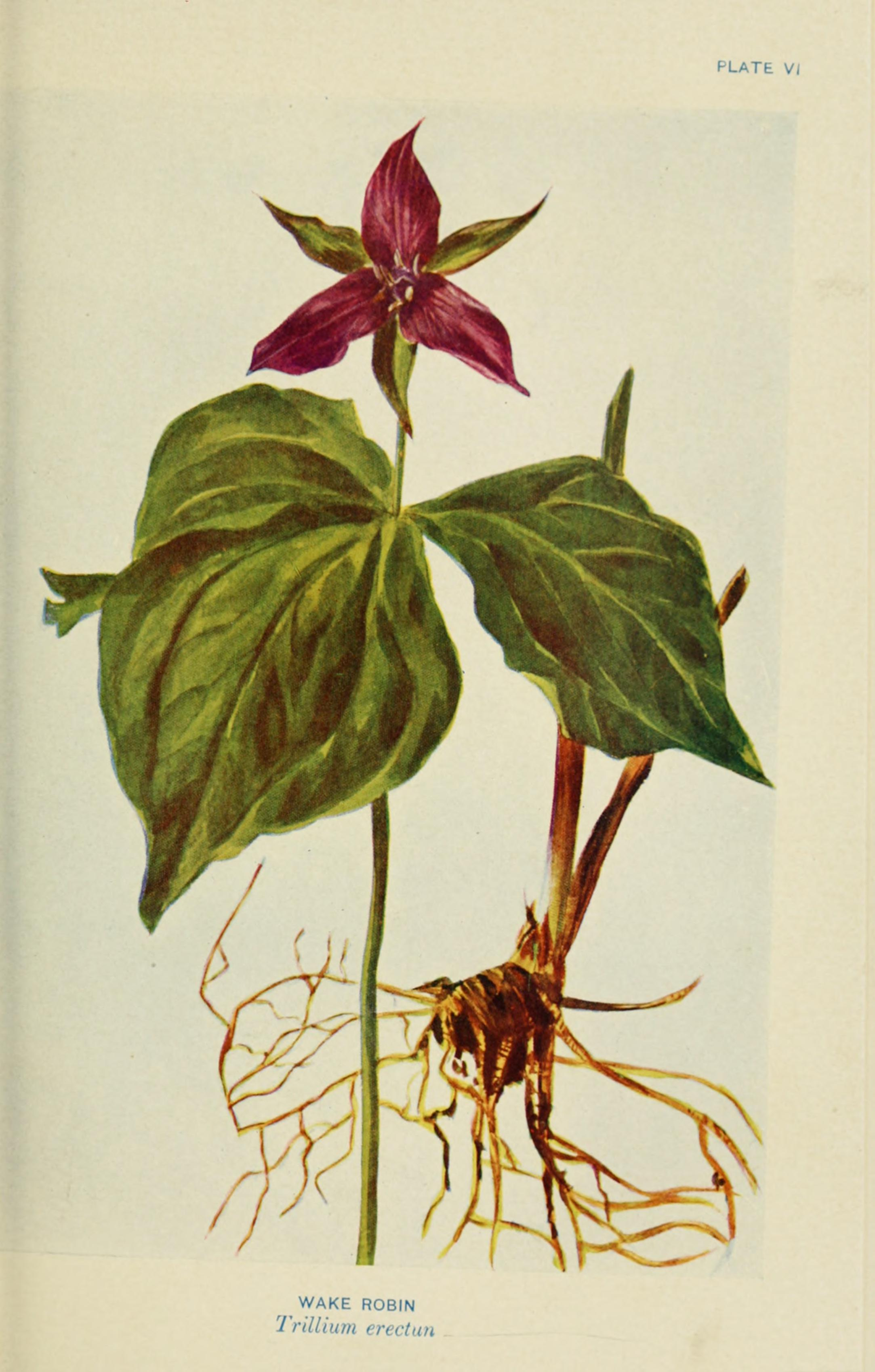 Title: According to season; talks about the flowers in the order of their appearance in the woods and fields Year: 1902 (1900s) Authors: Parsons, Frances Theodora, 1861-1952 Subjects: Flowers Publisher: New York, Scribner Text Appearing Before Image: PLATE V/ Text Appearing After Image: WAKE ROBIN Trillium erect an